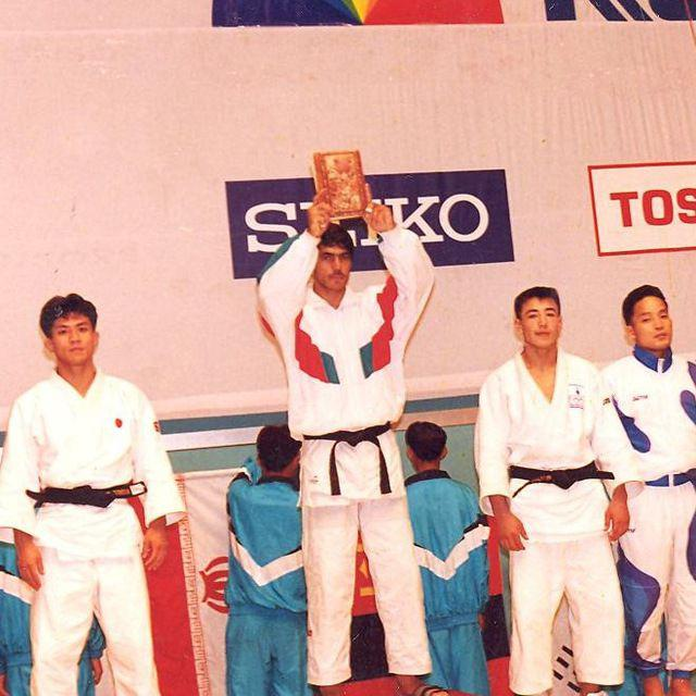 بالای سر بردن اولین مدال طلای جودوی آسیا توسط زین العابدین حقانی